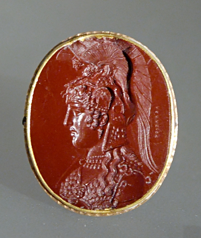 Intaglio — with the head of Athena Parthenos. Greek artwork, the mount is modern.